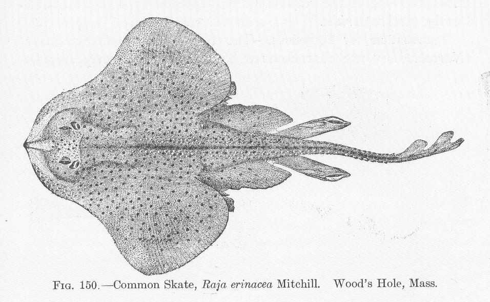 Common Skate, Raja erinacea Mitchill. Wood's Hole, Mass. Subject: Skates (Fishes) Tag: Fish